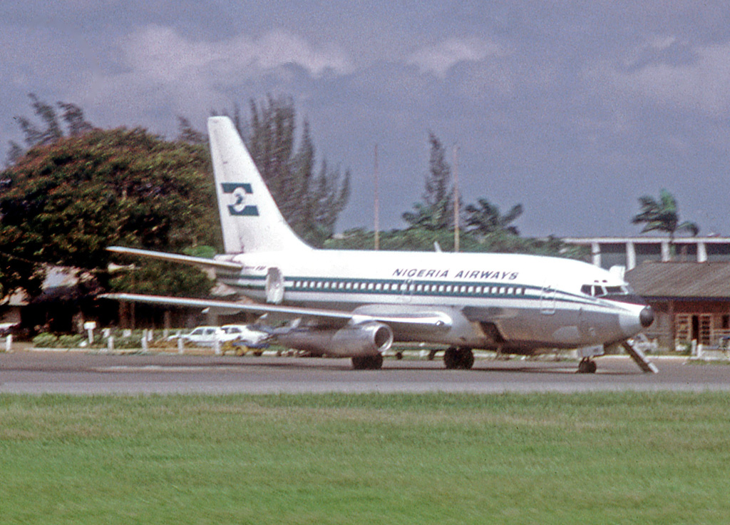 Boeing 737-2FD 5N-AND of Nigeria Airways at Lagos Ikeja Airport in 1974